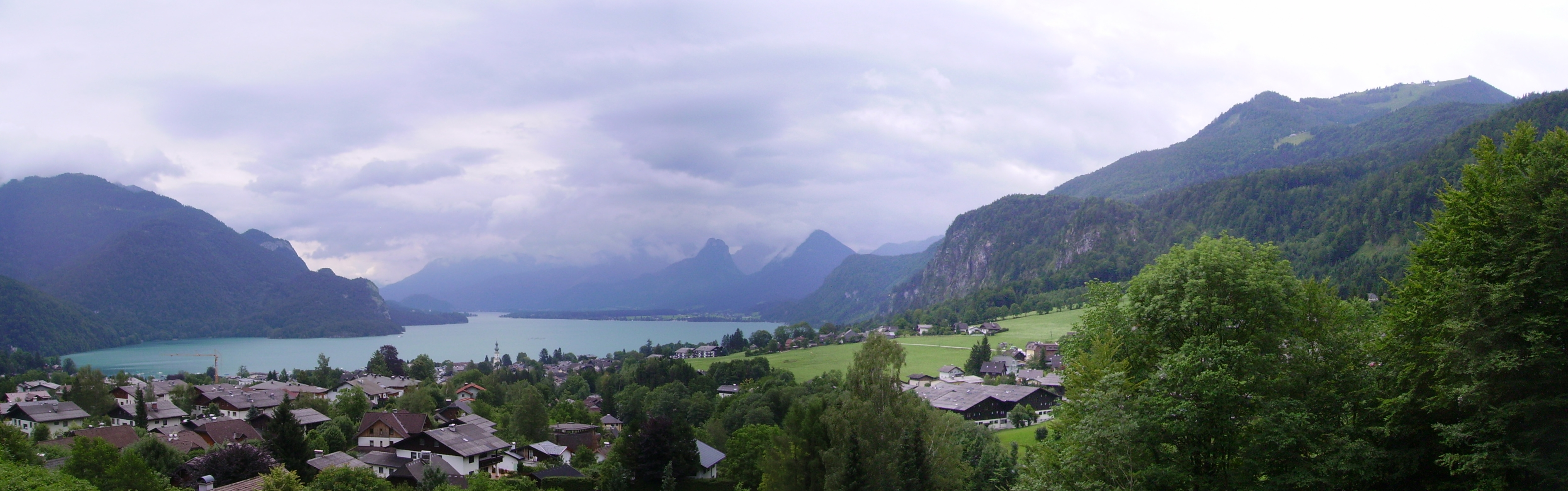 Wolfgangsee in Austria